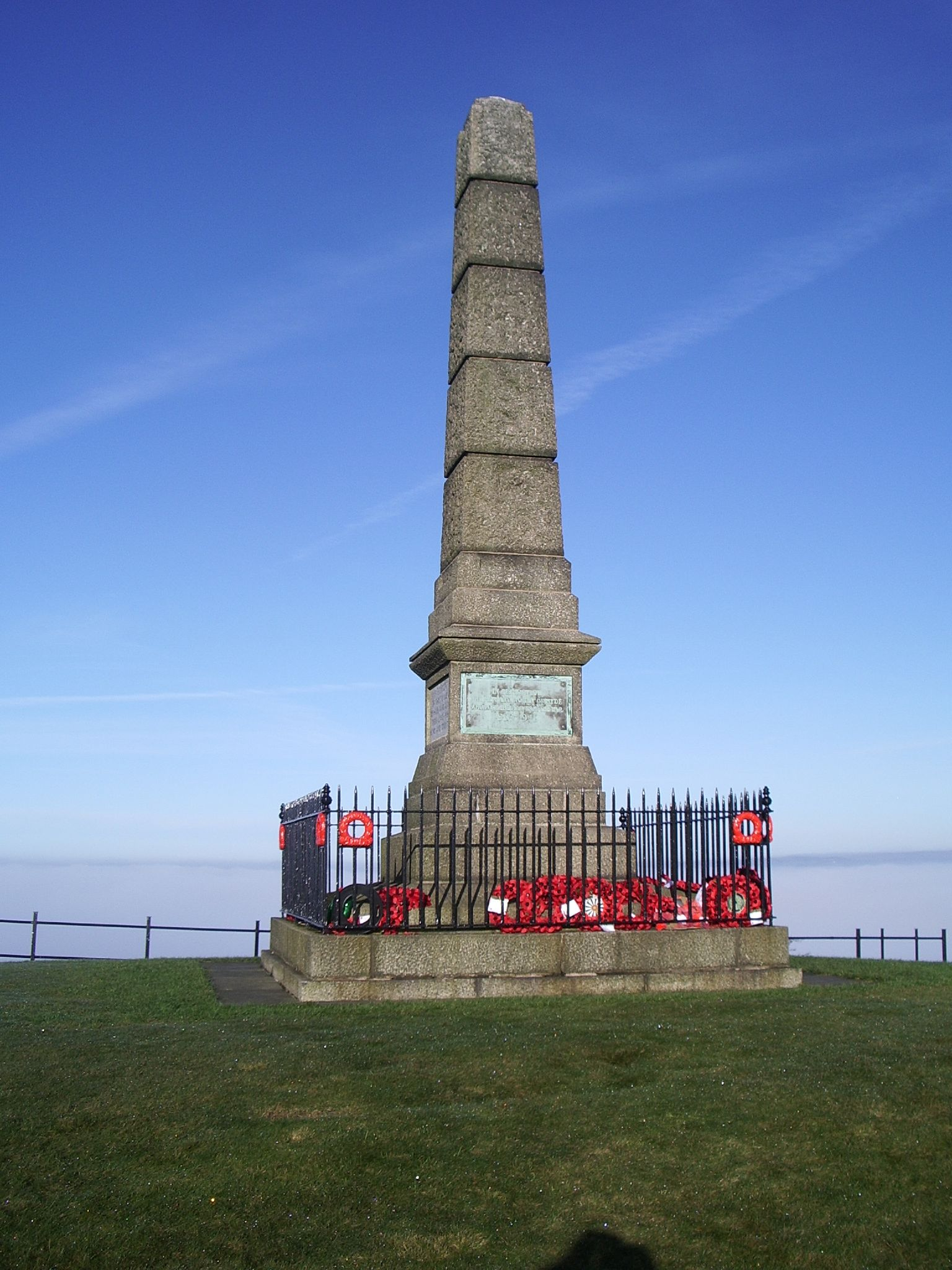 Hyde War Memorial, Hyde, Greater Manchester, England.